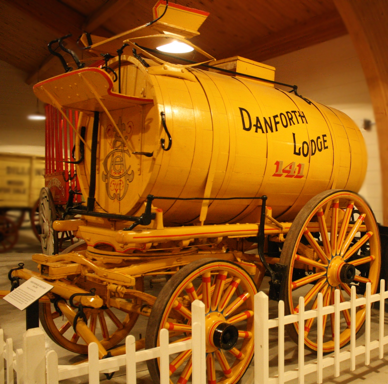 A street sprinkler / road oiler on display at the Wesley Jung Carriage Museum at the Wade House Historic Site (circa 1900).